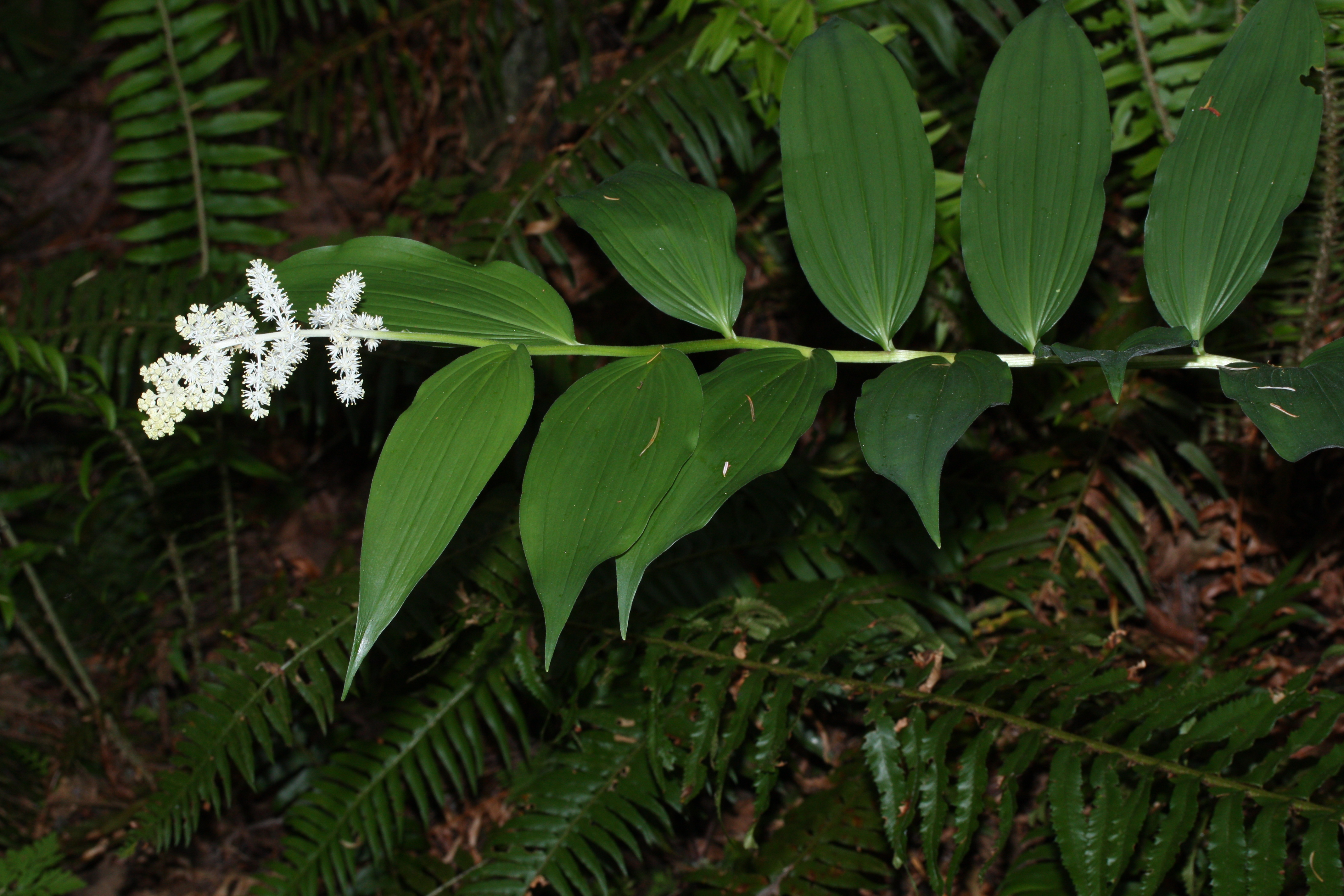 Feathery False Lily-of-the-valley, Plumed Solomon's Seal, Plumed Spikenard